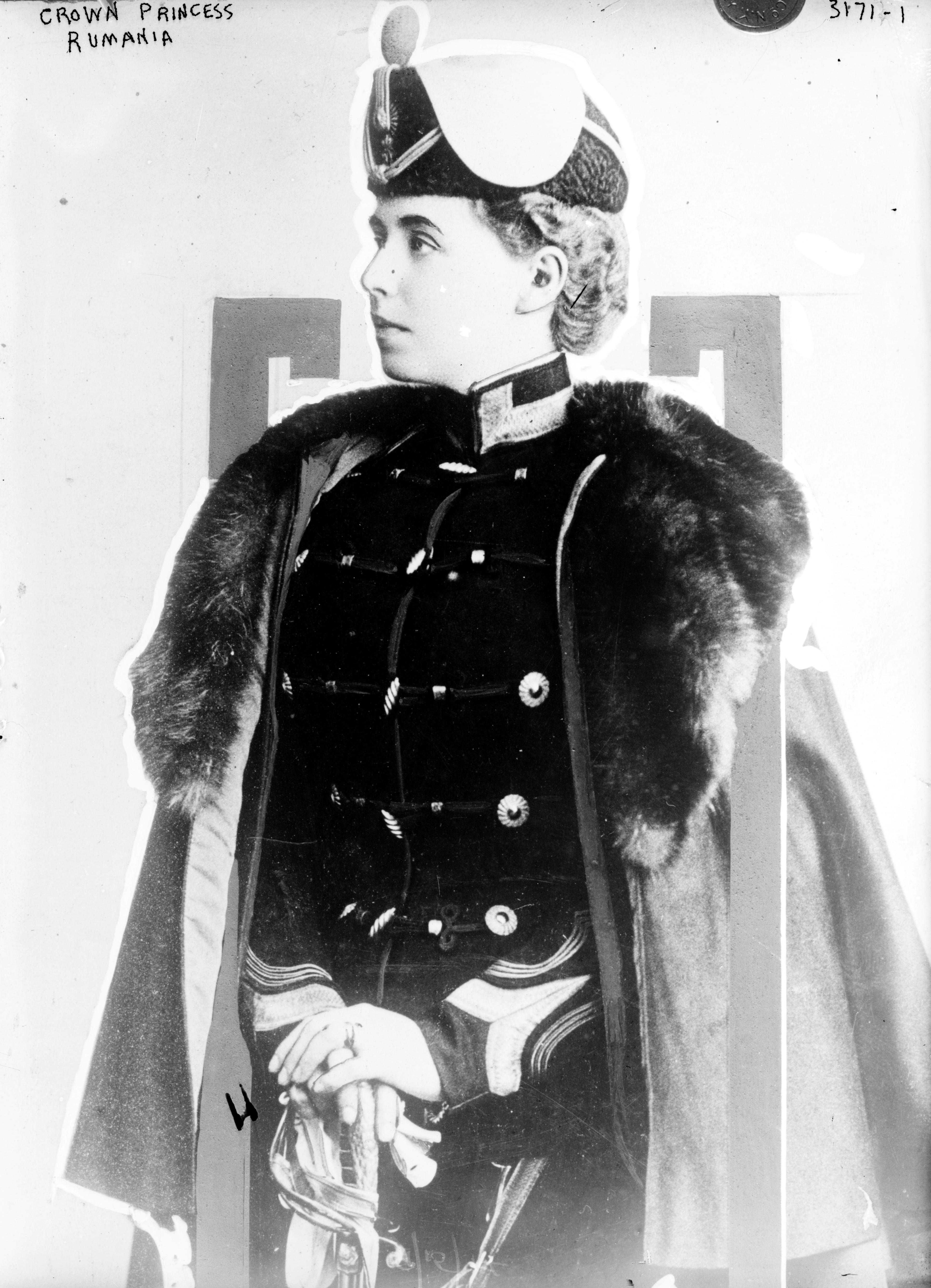 Queen Mary of Romania